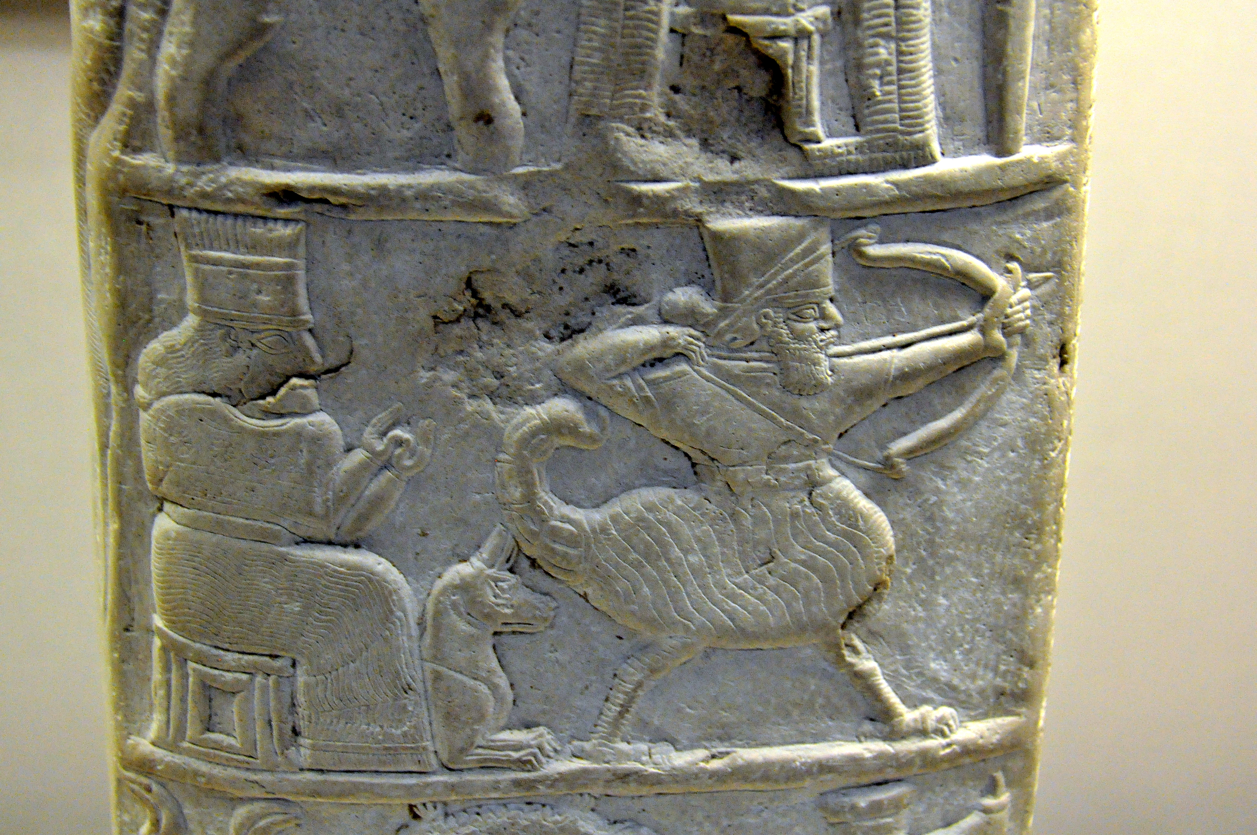 Boundary stone (kudurru) of Ritti-Marduk; his ancestral territory was made exempt from taxation. Babylonian, reign of Nebuchadnezzar I, 1125-1104 BCE. From Sippar (Tell Abu Habbah), Mesopotamia, Iraq. On display at the British Museum in London.